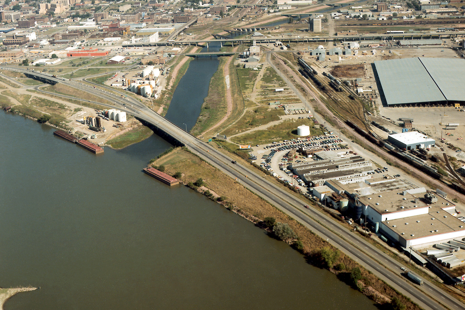 Aerial view of Sioux City, Iowa, USA, at the confluence of the Missouri and Floyd Rivers. Interstate-29 crosses the mouth of the Floyd River.